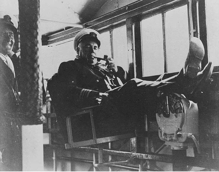 Captain Jonas H. Ingram as Commander, Destroyer Squadron Six, circa 1935, on the bridge of USS Litchfield (DD-336). Lieutenant Commander Charles R. Will, USN, his aide, is to his left. Note interior detail on blast shield/spray guard; also the "Captain's Chair".